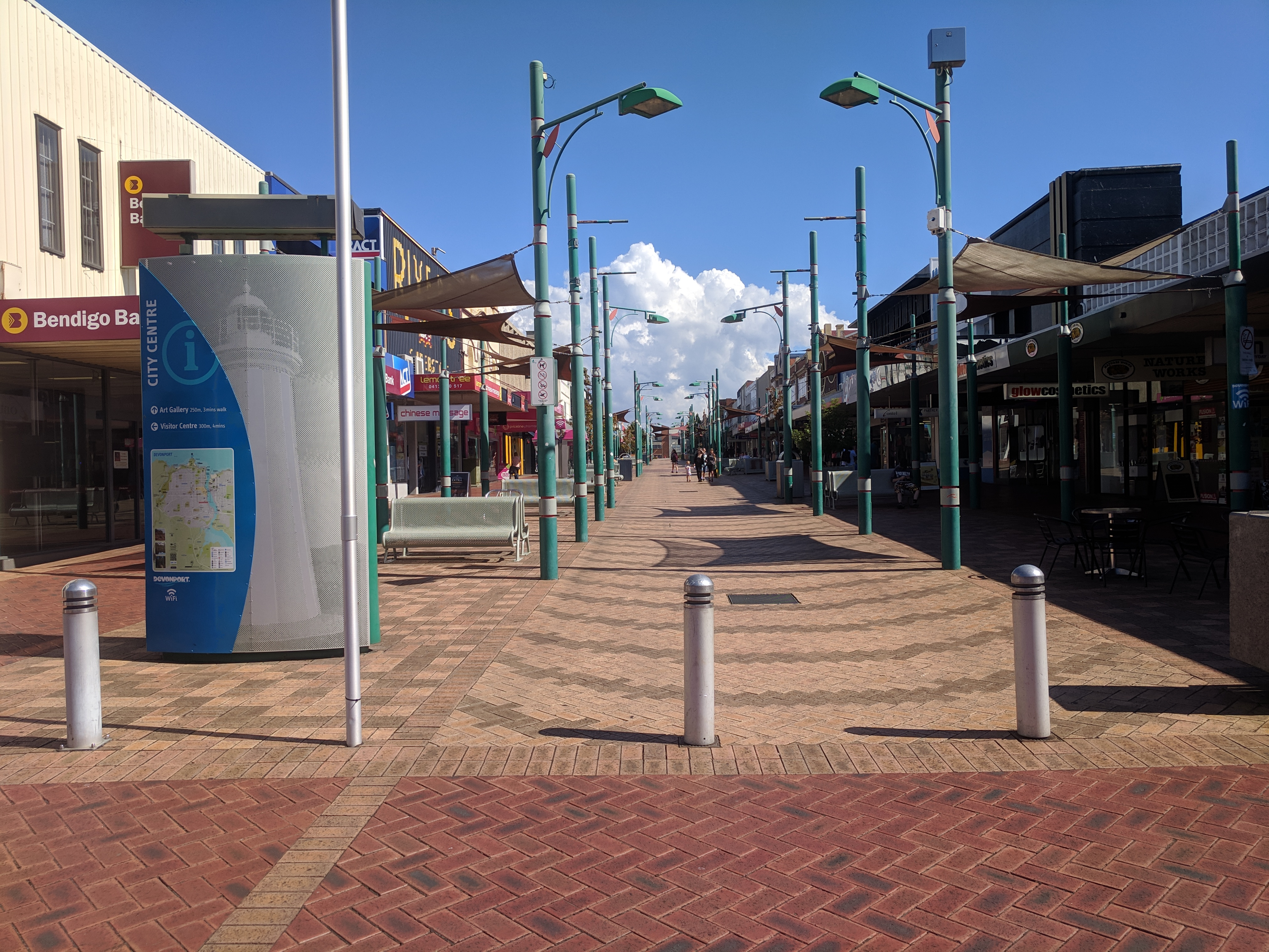 Rooke Street Mall - Devonport Tasmania